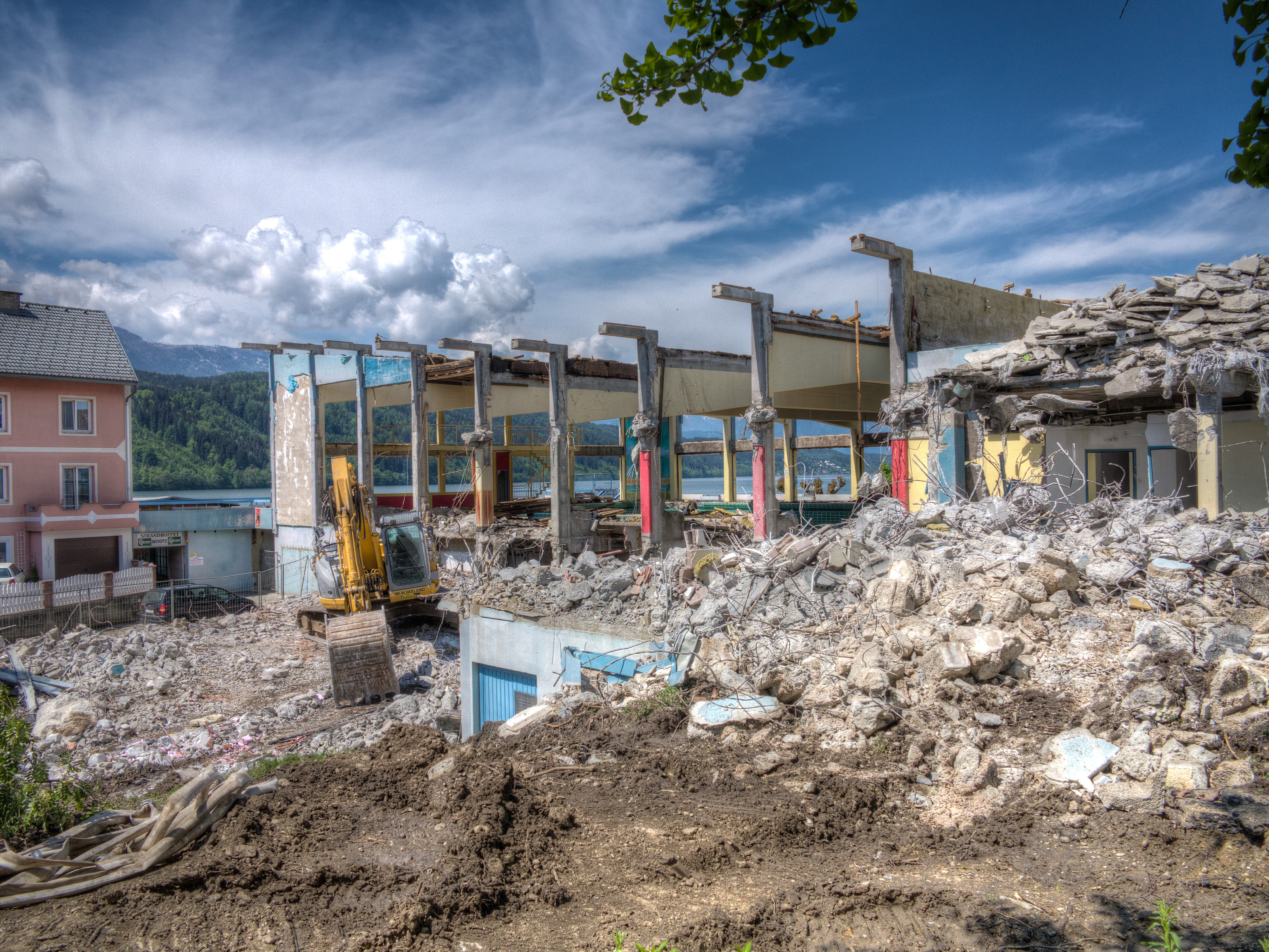 Demolition of the indoor pool of Millstatt in Carinthia / Austria / EU, which was not rebuilt. The operation of the bath was too expensive and led to overindebtedness of the community Millstatt. It was shut down much too late.